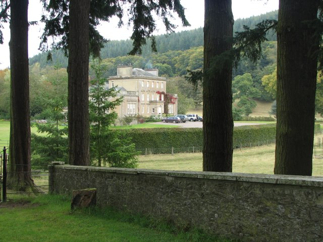 Carolside Georgian mansion house, viewed from Park Bridge.